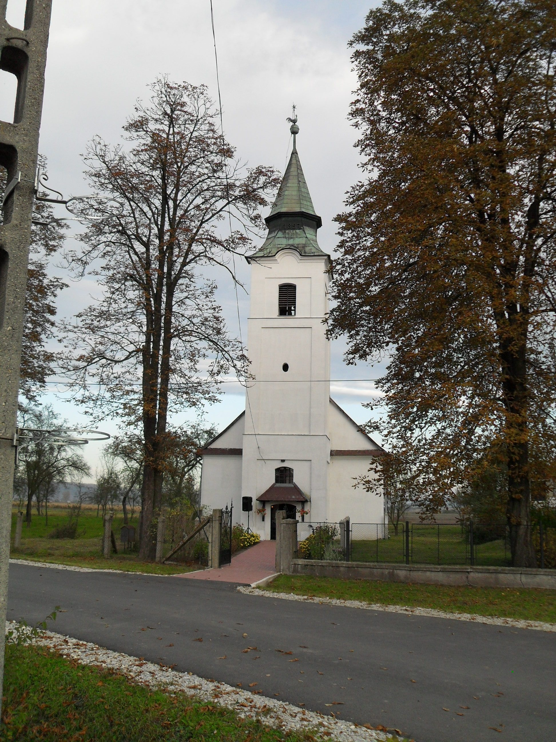 Reformed Church in the village Seven